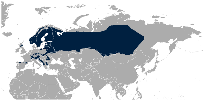 Geographical distribution of the Western Capercaillie Tetrao urogallus. The map was created using the Generic Mapping Tools, GMT, version 5.1.2.